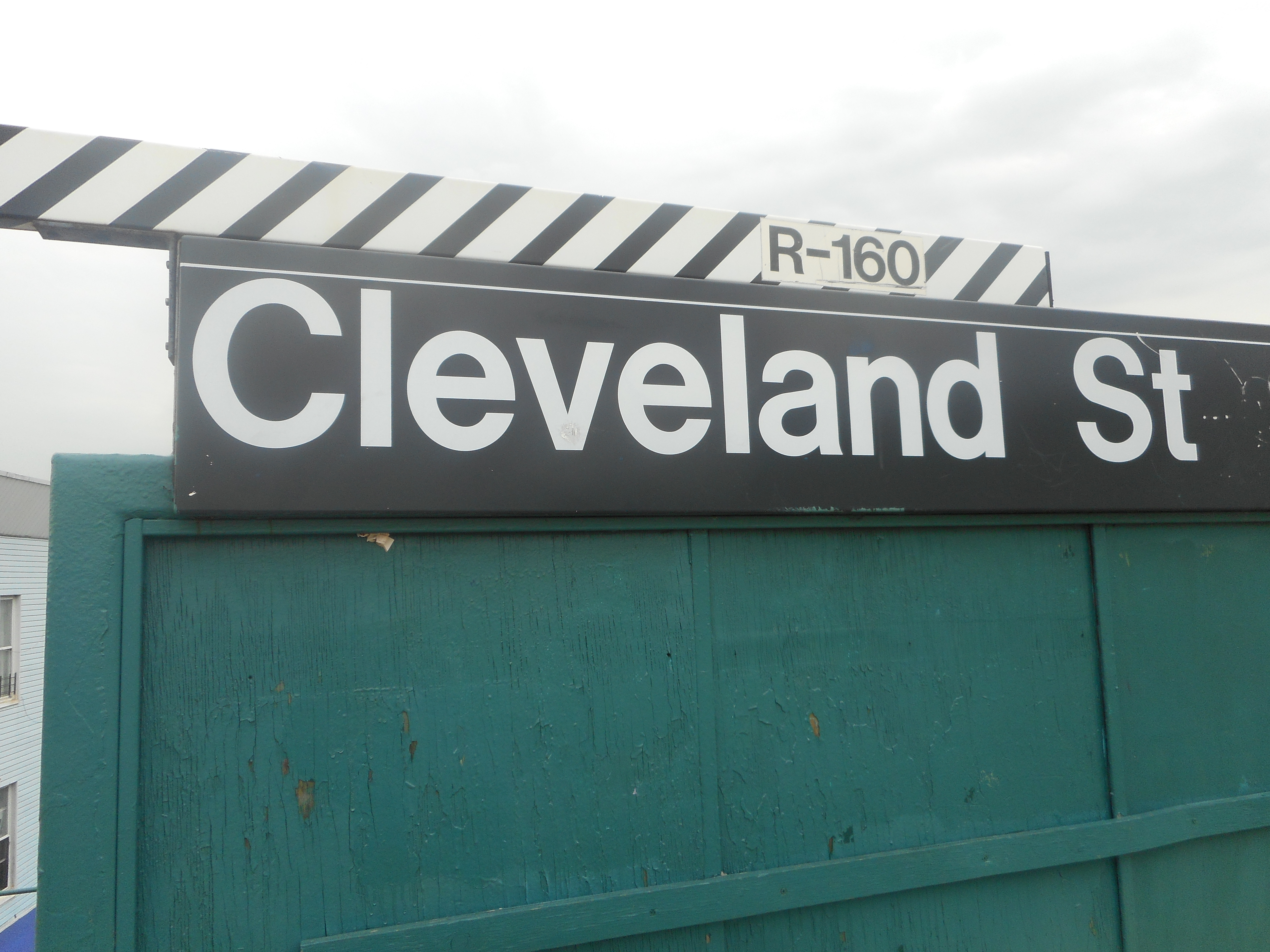 Additional photo of the Cleveland Street Elevated Station on the BMT Jamaica Line. Further details and a rename to come later.